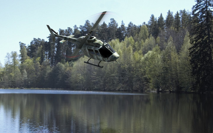 Chief Warrant Officer 2 Bob Jangro pilots a OH-58 Kiowa at Fort Stewart, Ga.